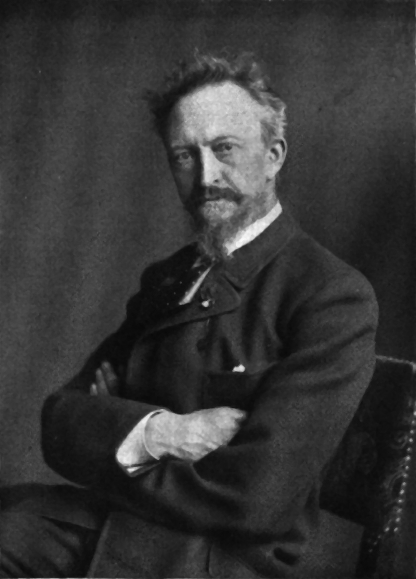 Portrait of Johannes Otzen.